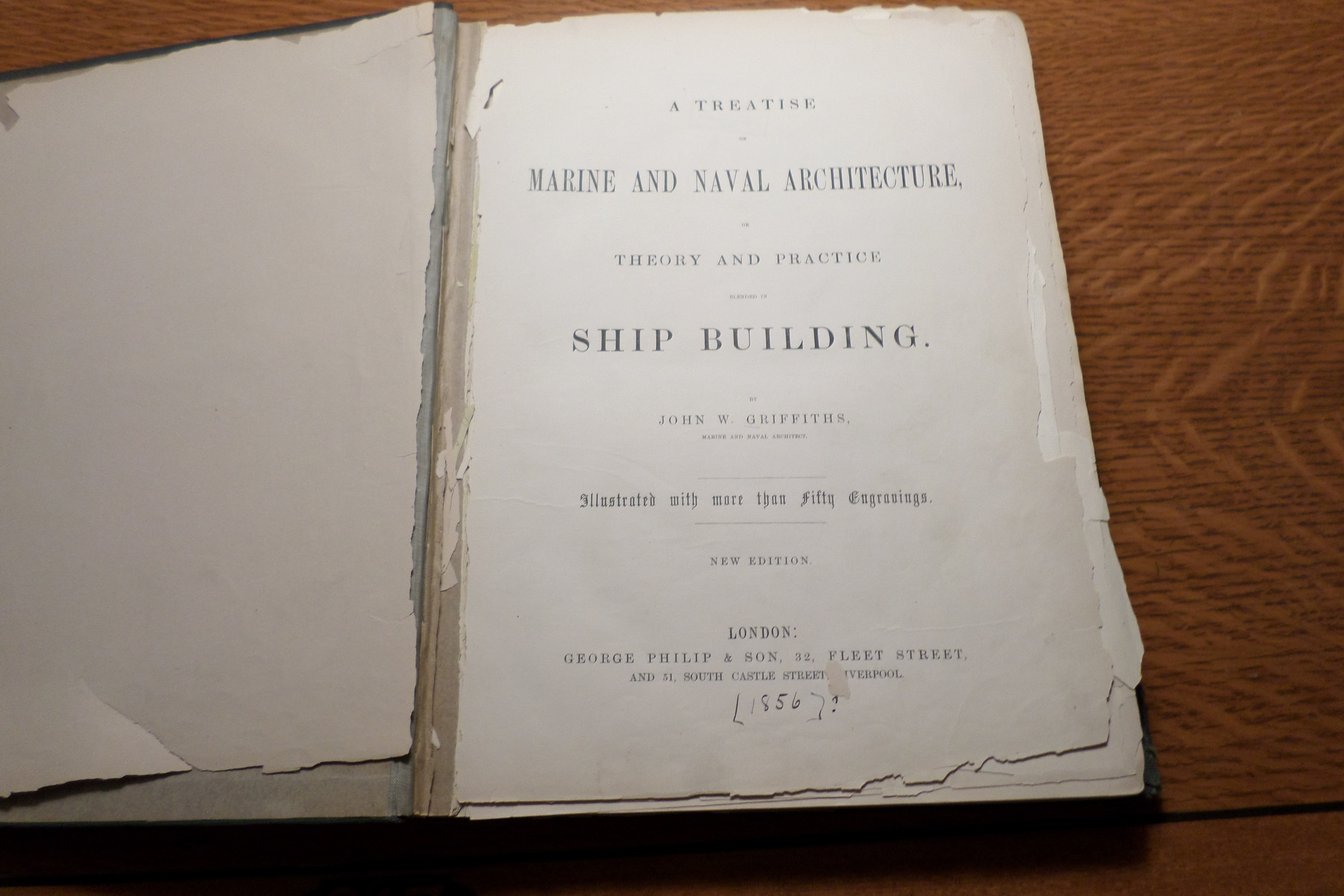 Treatise on Marine and Naval Architecture by John Willis Griffiths (1809-1882)